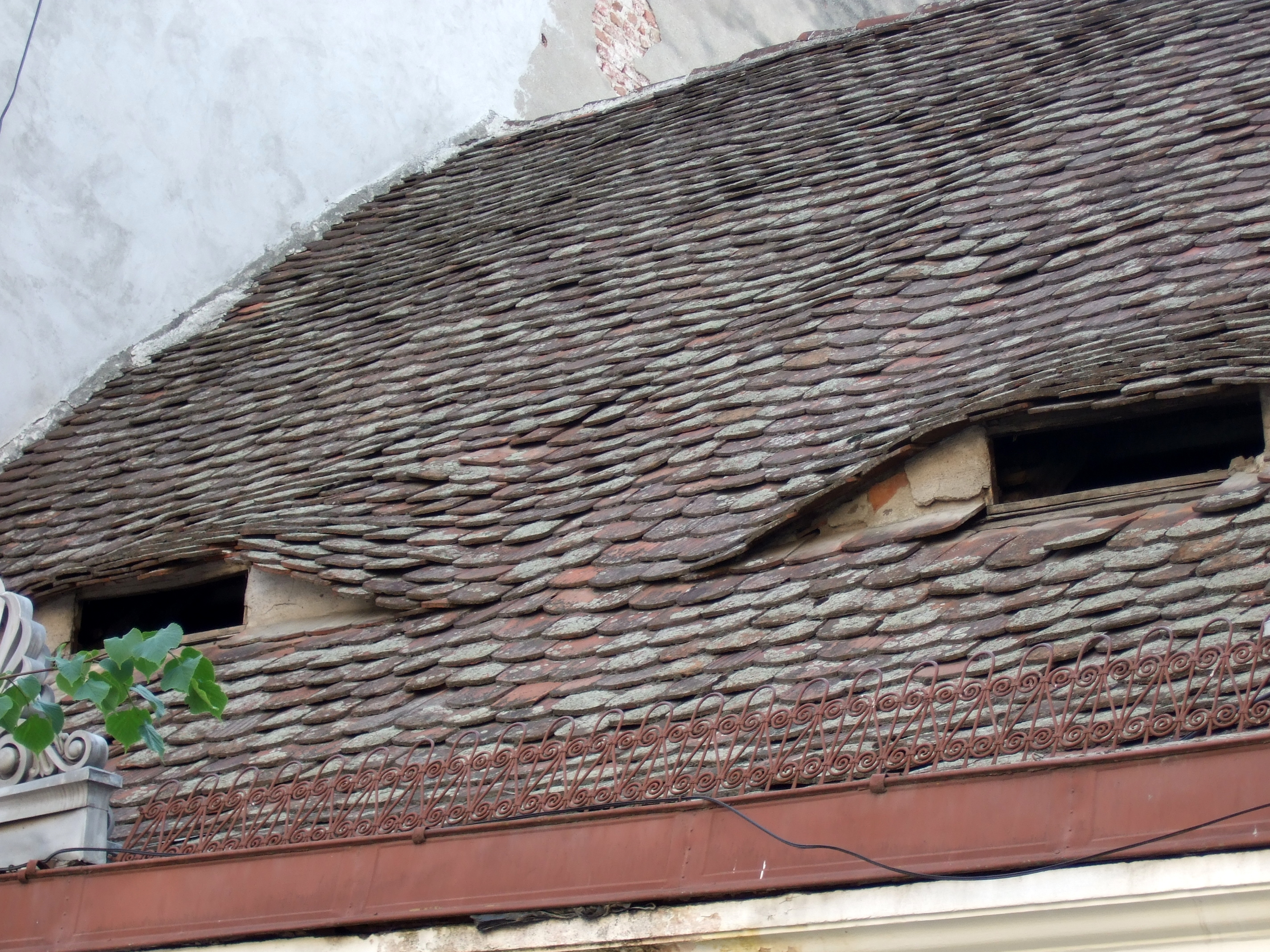 the eyes